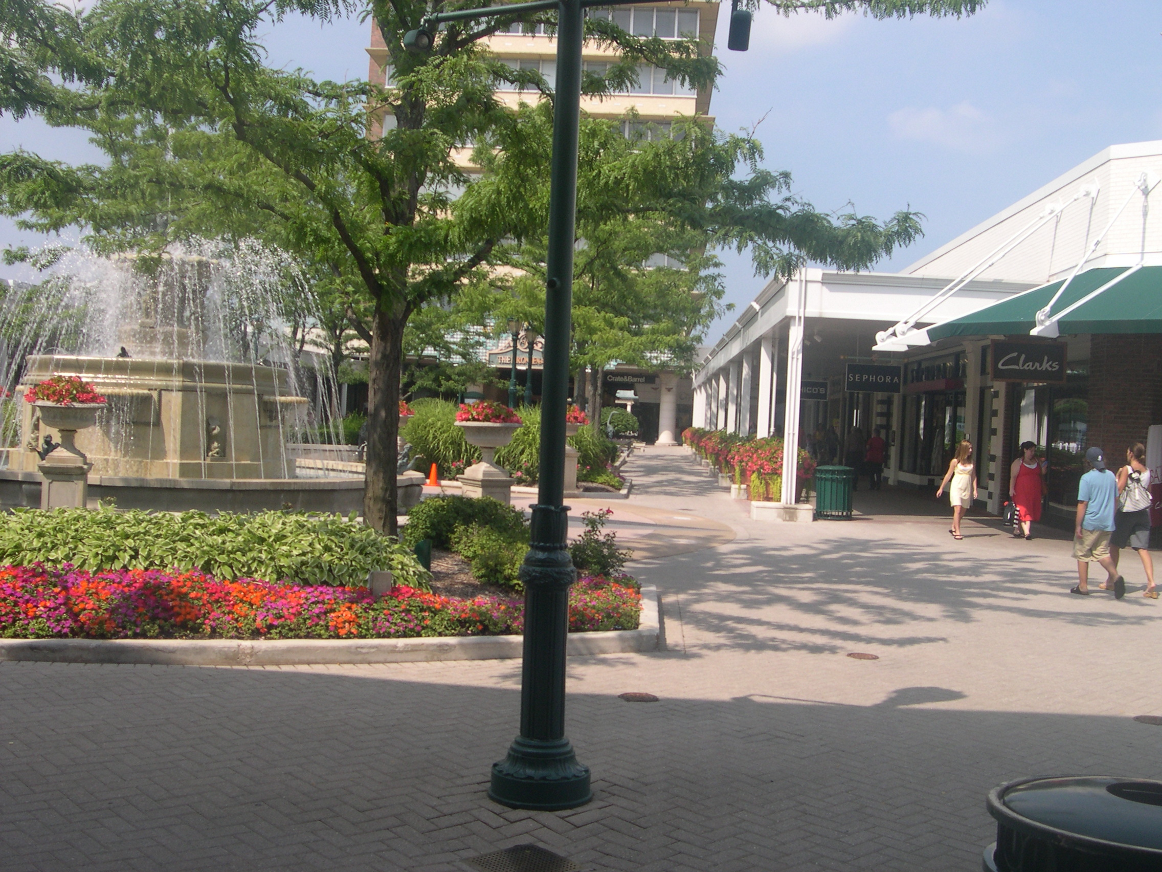 Westfield Old Orchard, formerly Old Orchard Shopping Center, is an open-air upscale shopping center in Skokie, Illinois, USA.